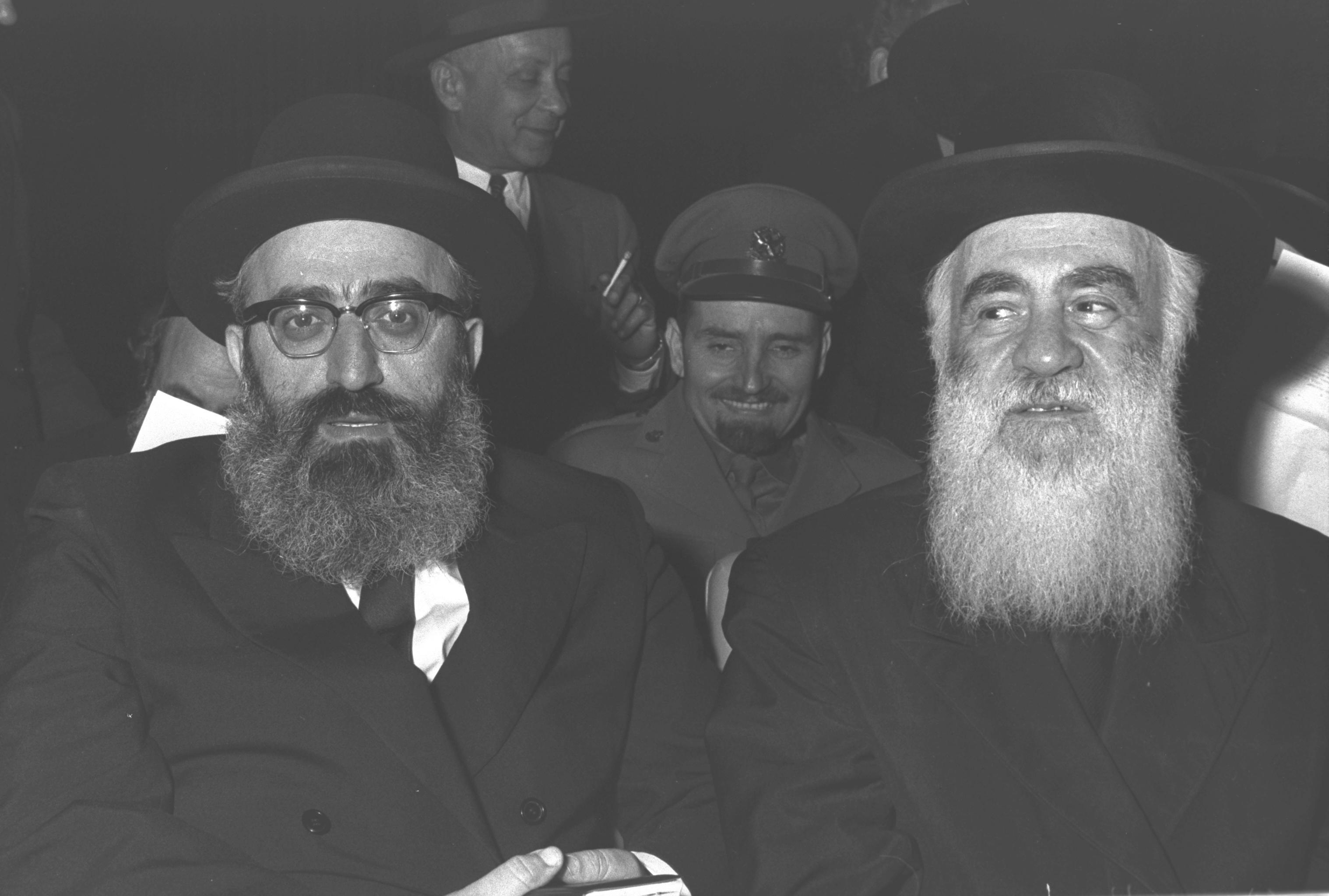 Rabbi Shlomo Goren (L) & rabbi Karniel from Haifa after elections for the Chief Rabbinate, held at "Heichal Shlomo" in Jerusalem. in the right, army rabbi Gad Navon.